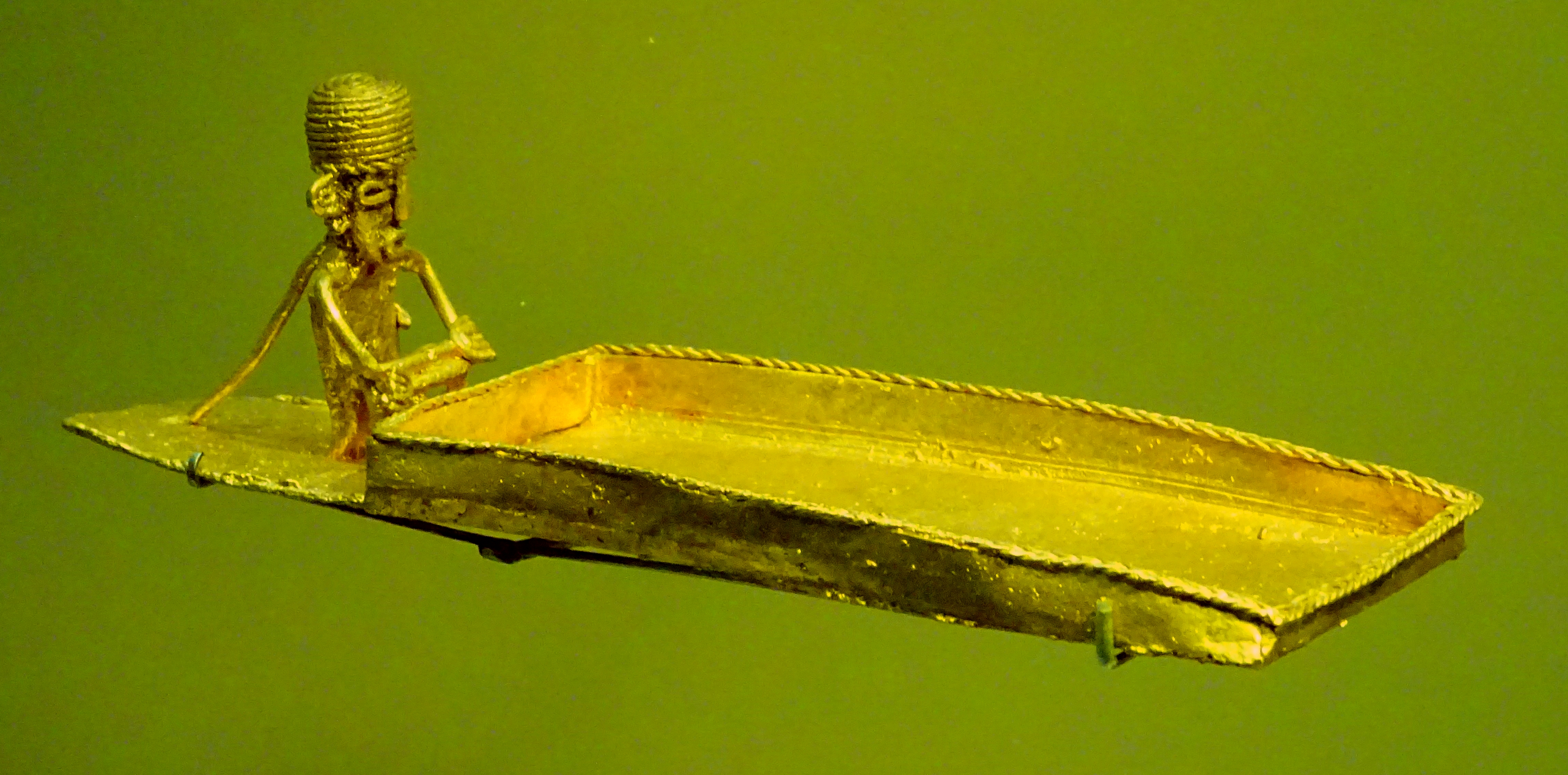 Golden plate used to inhale yopo (Anadenanthera peregrina), in the religious practices of the Muisca. On display at the Museo del Oro/Gold Museum in Bogotá, Colombia